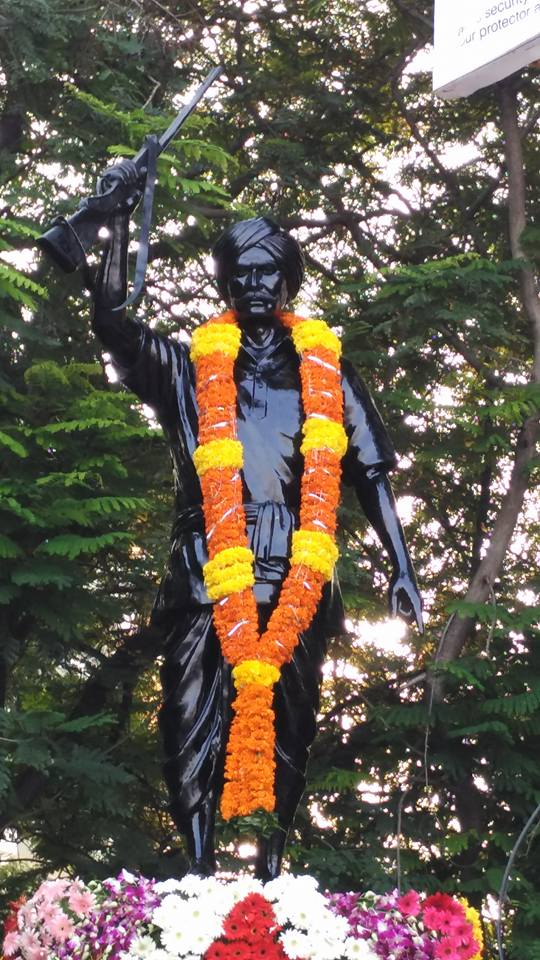 Komaram Bheem Photograph taken on 27th Oct 2015 with my Mi4i mobile